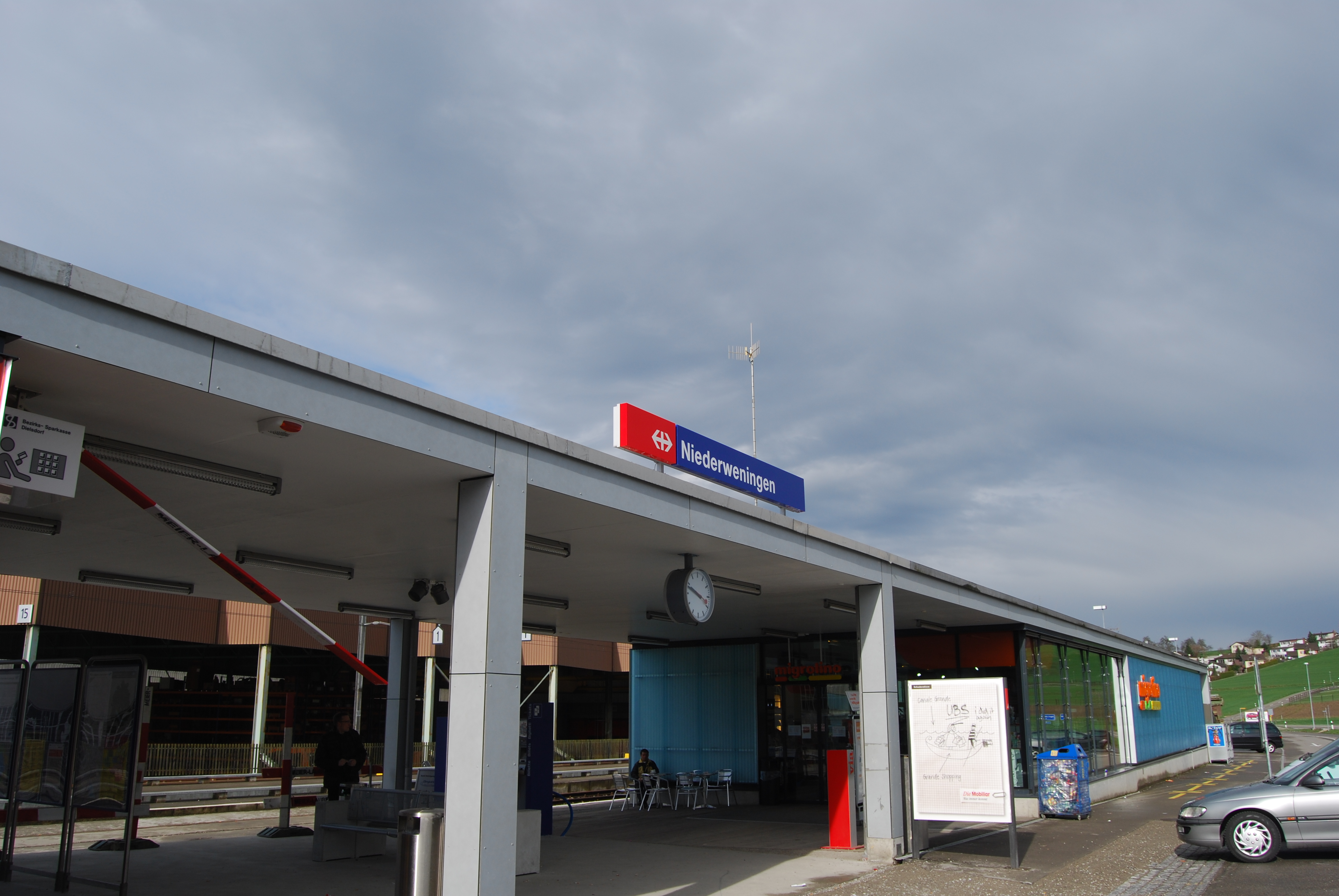 Train station of Niederweningen, canton of Zürich, SwitzerlandEsperanto: Stacidomo de Niederweningen, Kantono Zuriko, Svislando